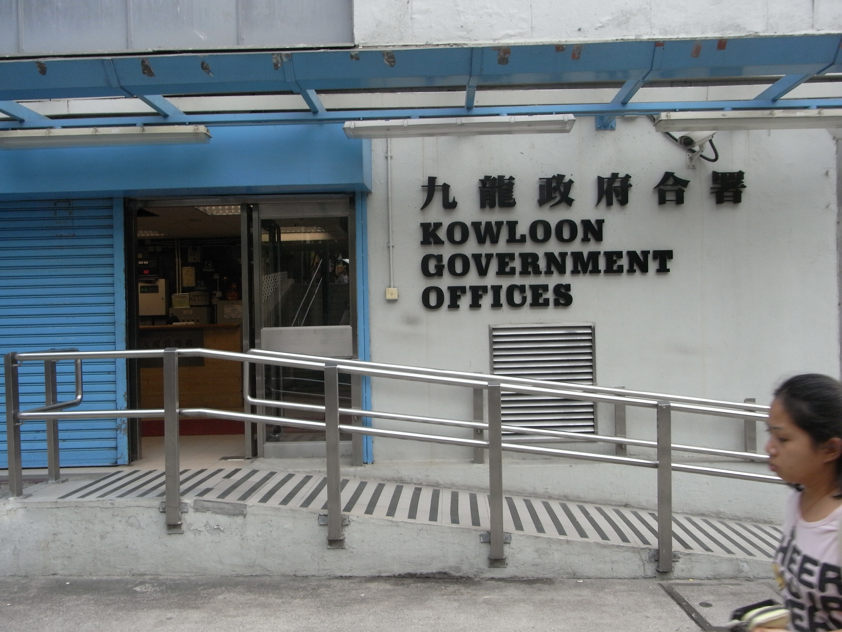 油麻地 九龍政府合署 街市街入口